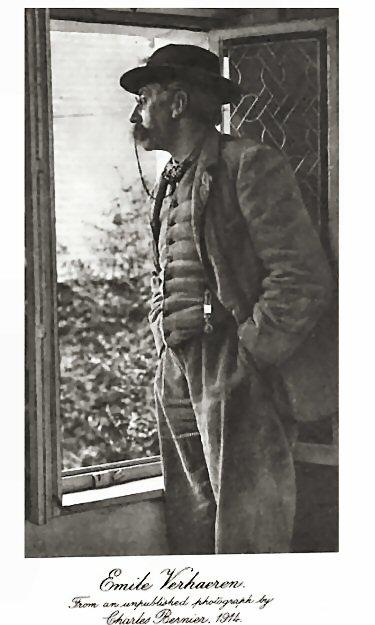 Caption reads: Emile Verhaeren from an unpublished photograph by Charles Bernier, 1914